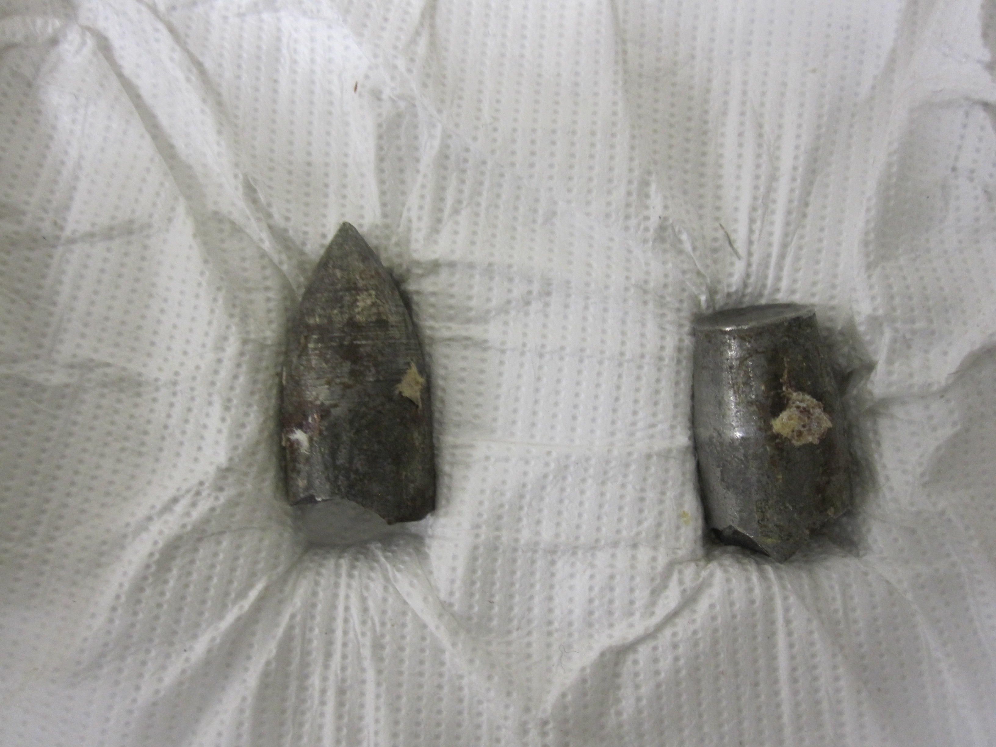 Accession: 79-74-A North Vietnamese Machine Gun Bullet 1H"X 0.5W North Vietnamese Machine Gun Bullet, in two sections as a result of striking USS Maddox DD-731 during the Gulf Of Tonkin Incident. Collection of Curator Branch, Naval History and Heritage Command